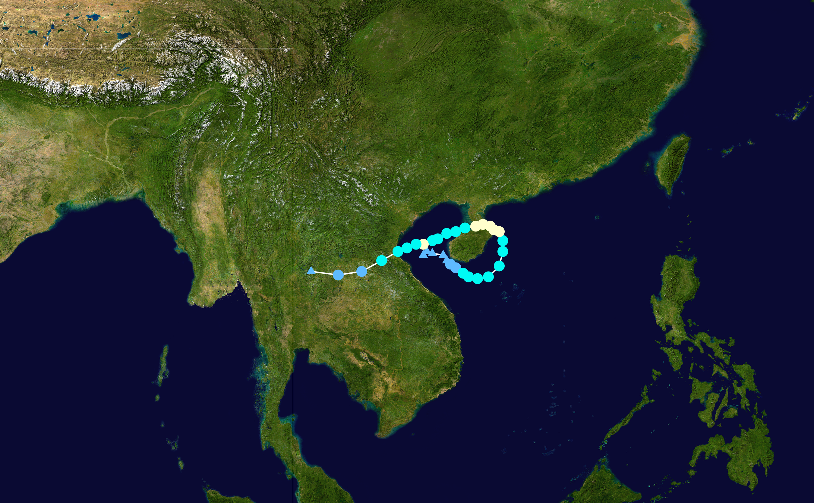 Typhoon Willie 1996 track. Uses the color scheme from the Saffir-Simpson Hurricane Scale.